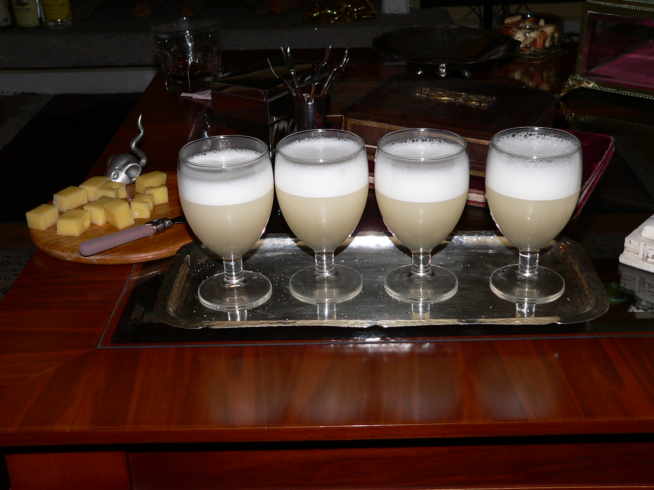 Description: Pisco sour Subject: Peruvian Pisco sour is ready Country of origin : Peru Photographer: © Manuel González Olaechea y Franco Shot date : July, 29th , 2005